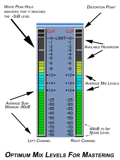 Example of optimum mix levels for professional mastering